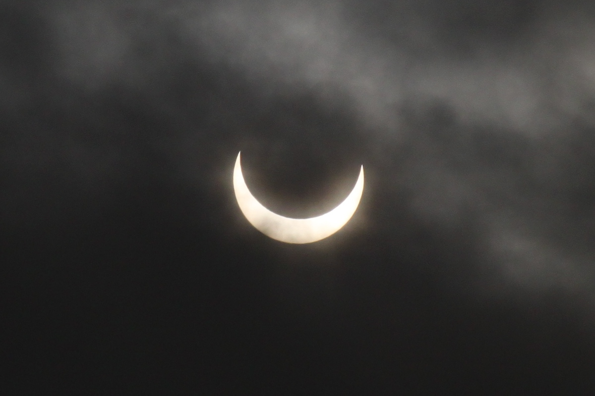 Solar eclipse of 4 January 2011 seen from Marki, Poland.